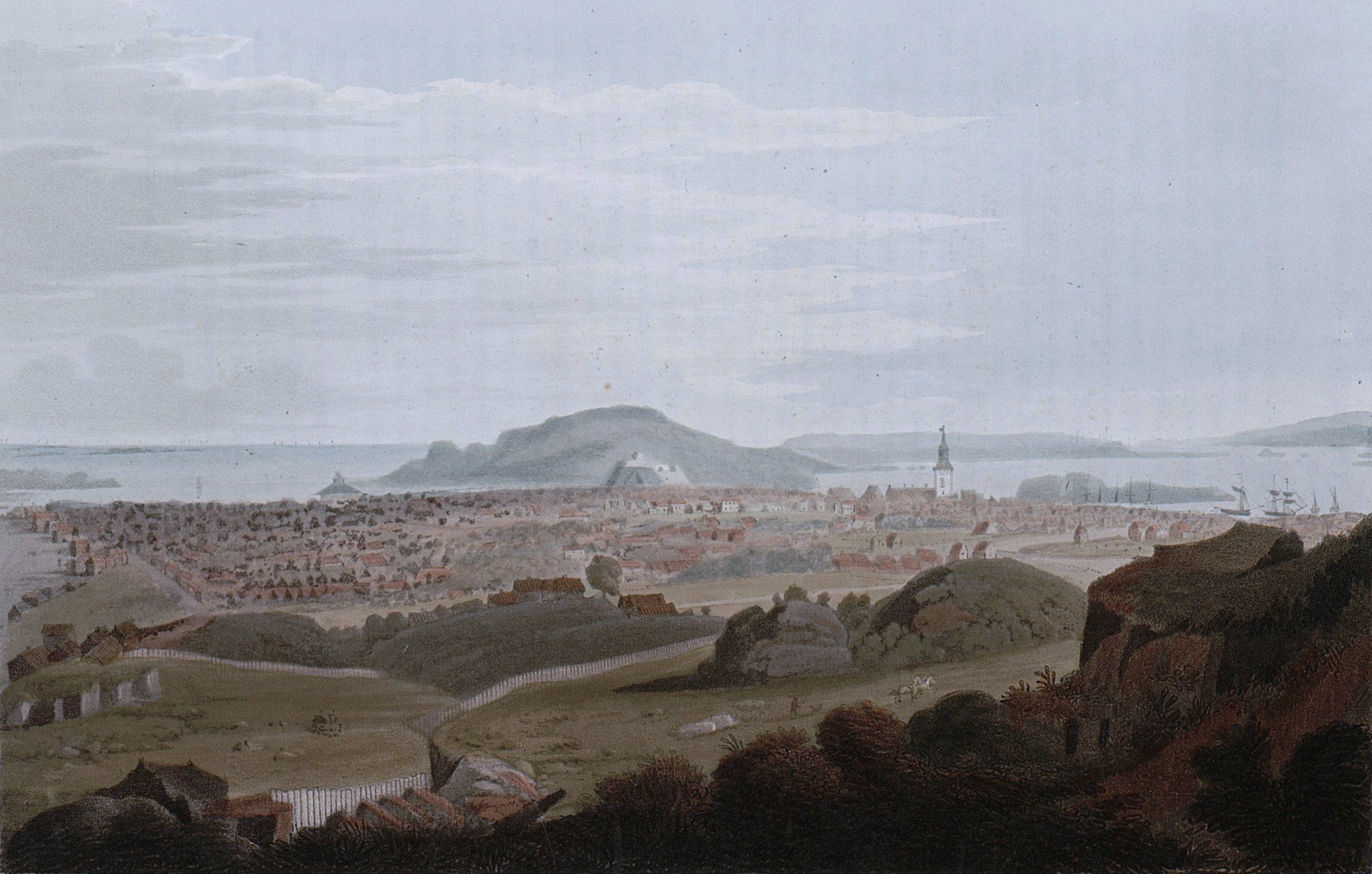 No. X. A VIEW OF THE TOWN OF CHRISTIANSAND, TAKEN FROM AN ELEVATED SITUATION NEAR TORRISDALS RIVER. This seaport town gives name to one of the four grand divisions of Norway, and is said to have derived its appellation from the abundance of sand in and about it, which is rarely to be met with in Norway. It is defended by two Castles; the principal streets are at right angles, covered with sand three or four inches deep. The episcopal church is a fair edifice in form of across, built of stone whitewashed, with a tower and clock; the roof is of glazed brown pantiles. It is very neatly fitted up within, and provided with chambers, pews, organ, font, &c. &c. The edifice is surrounded by a neat cemetery, containing some handsome monuments; beneath a spreading yew is one to Hans Henric Tybring, late Bishop of Christiansand, who died February, 13th, 1798. Many reputable merchants, traders, and ship-builders reside here. Their houses are large quadrangular buildings of timber, having ample and spacious apartments accommodated with court-yards; within well furnished and decorated. Being wood, they are generally painted lead colour or dark red; the window frames and chimneys are painted uniformly white. They have watchmen who proclaim the wind blowing, and the hour. The ships in the harbour of Fleceroe are seen from this spot on the right in the distance. This town was destroyed by fire in 1734. On the left is Torrisdals river, and from the adjacent mountain is seen that terrible precipice which terminates the chain of the Norwegian alps.